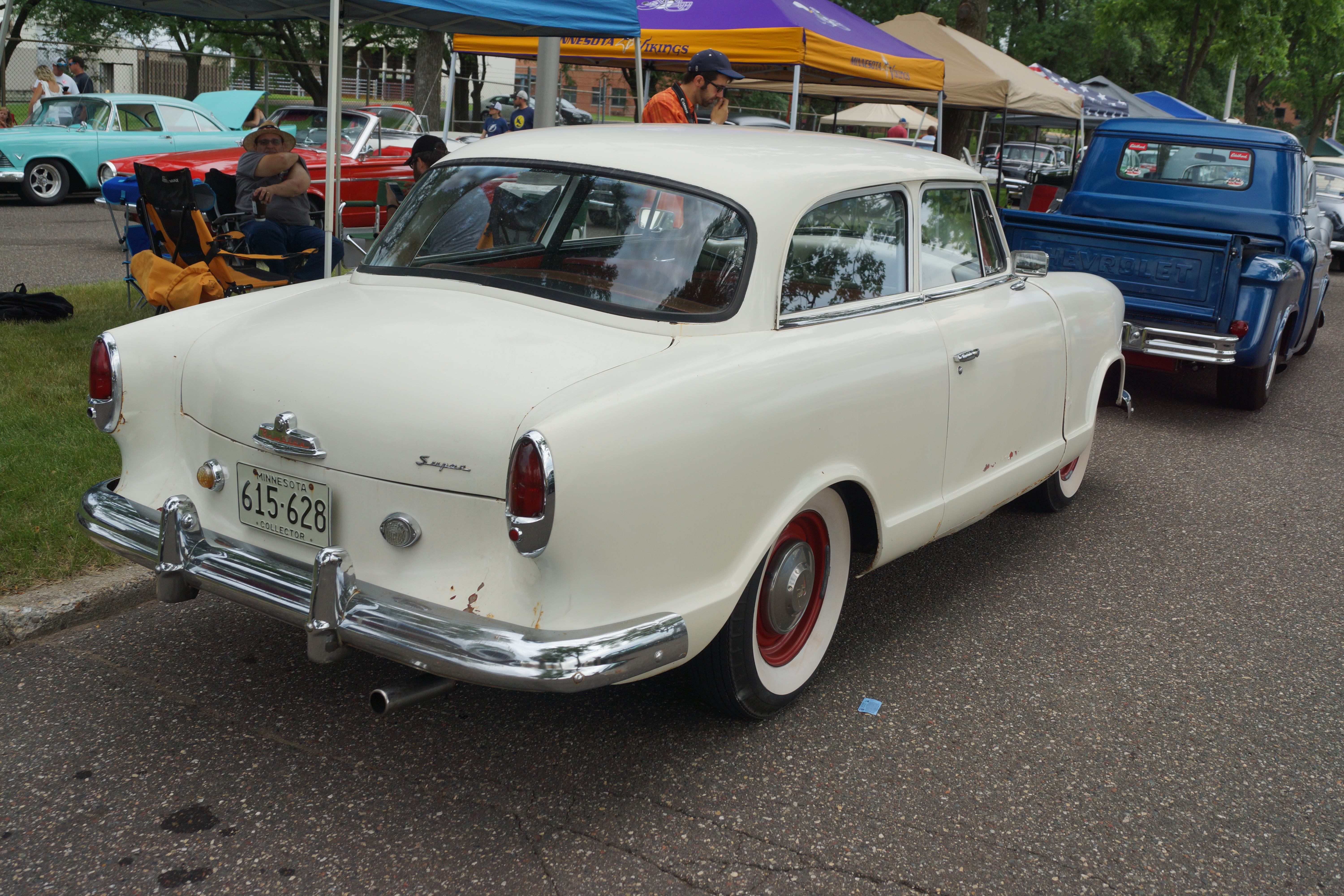 Minnesota Street Rod Association (MSRA) “BACK TO THE 50′s” 43rd Annual Car Show June 17-19, 2016 State Fairgrounds St. Paul Minnesota Click here for more car pictures at my Flickr site. Vote for you favorite Car Show here, until July 18, 2016 Also on Tumblr